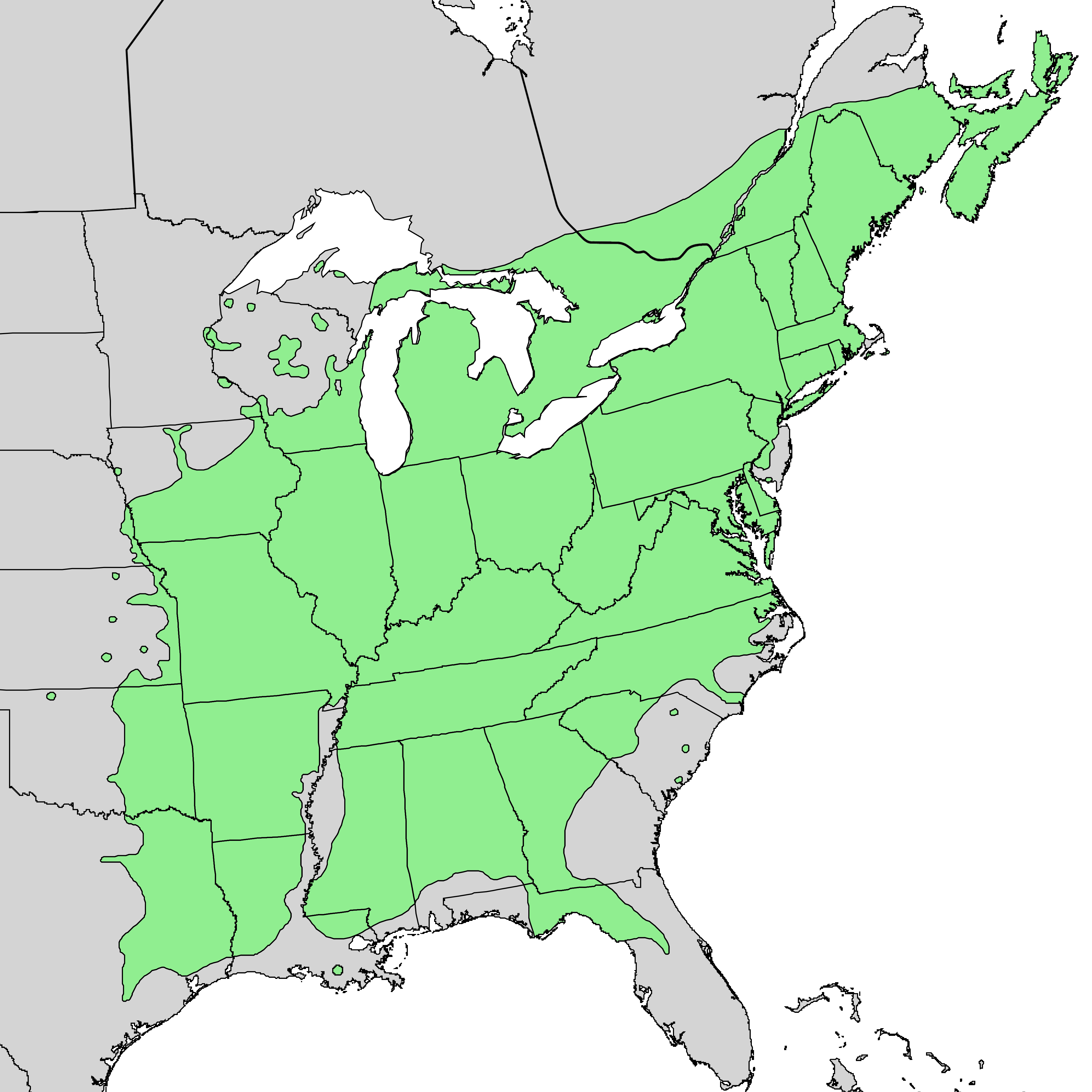 Natural distribution map for Fraxinus americana (white ash)